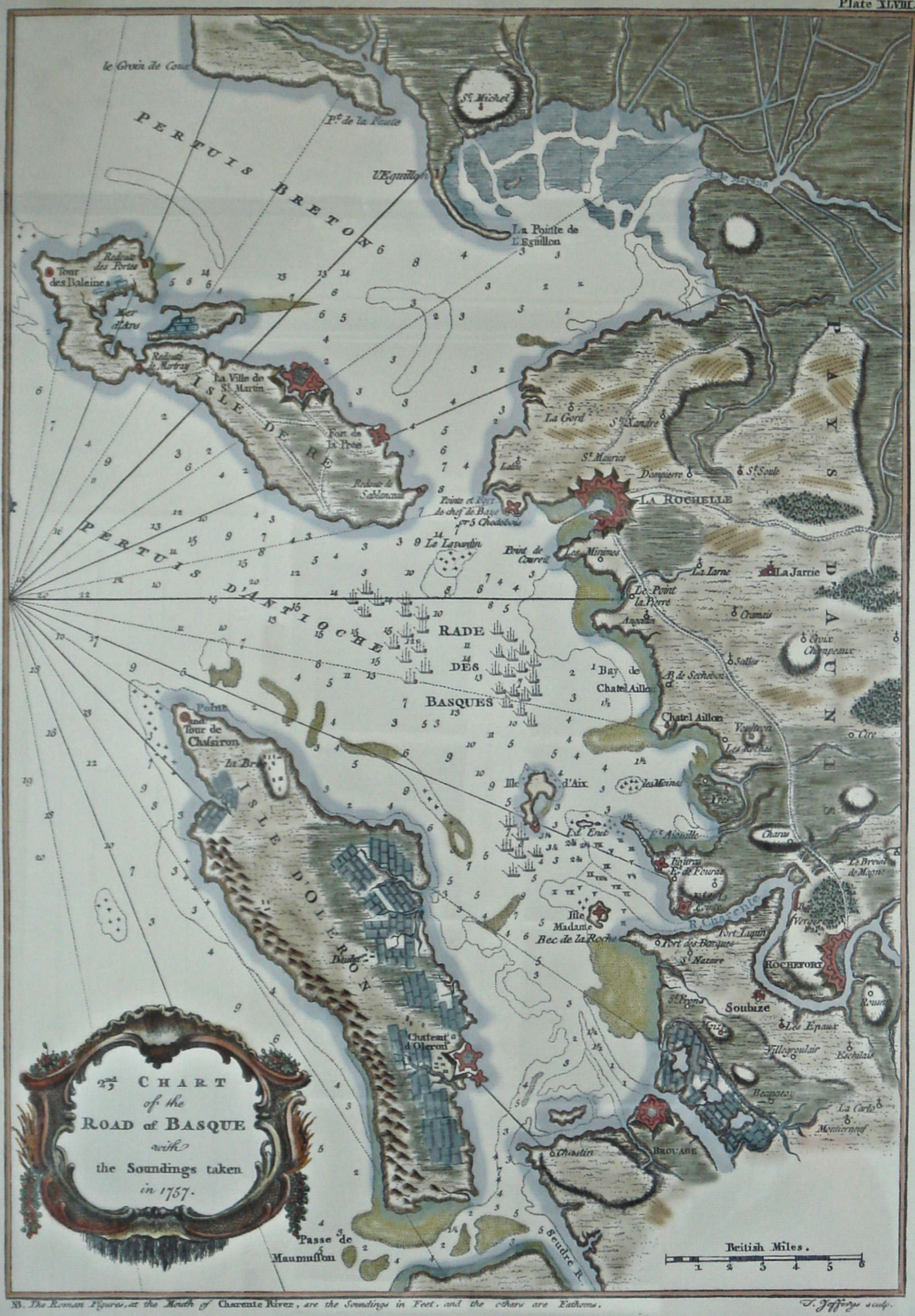 Chart_of_the_Road_of_Basque_1757